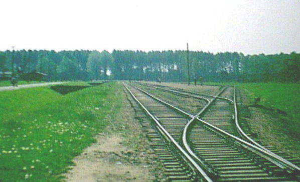 Auschwitz-Birkenau Camp. Selection ramp, looking south.